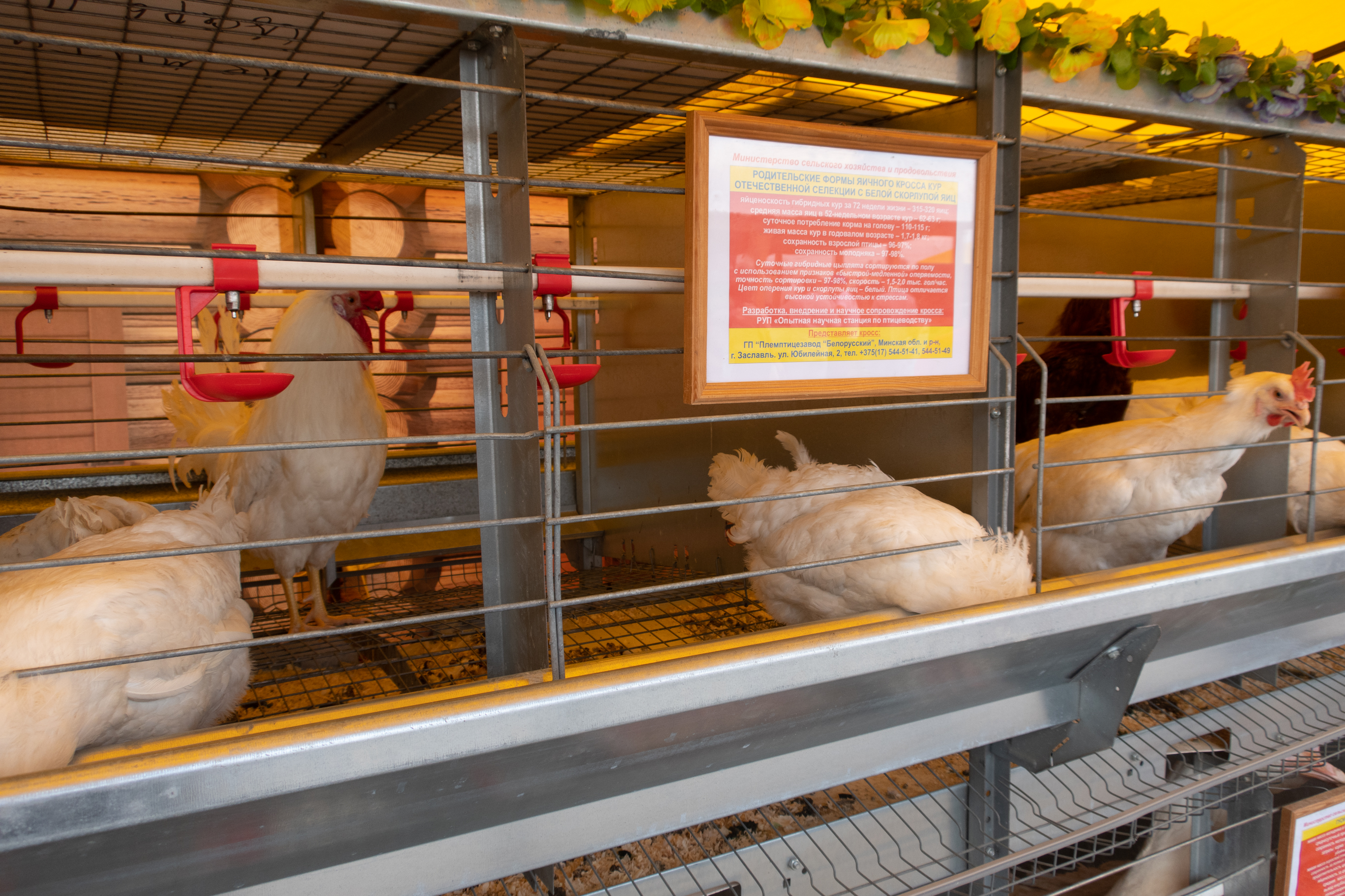 Photo taken at Belagro-2019 exhibition (Minsk district, Belarus)